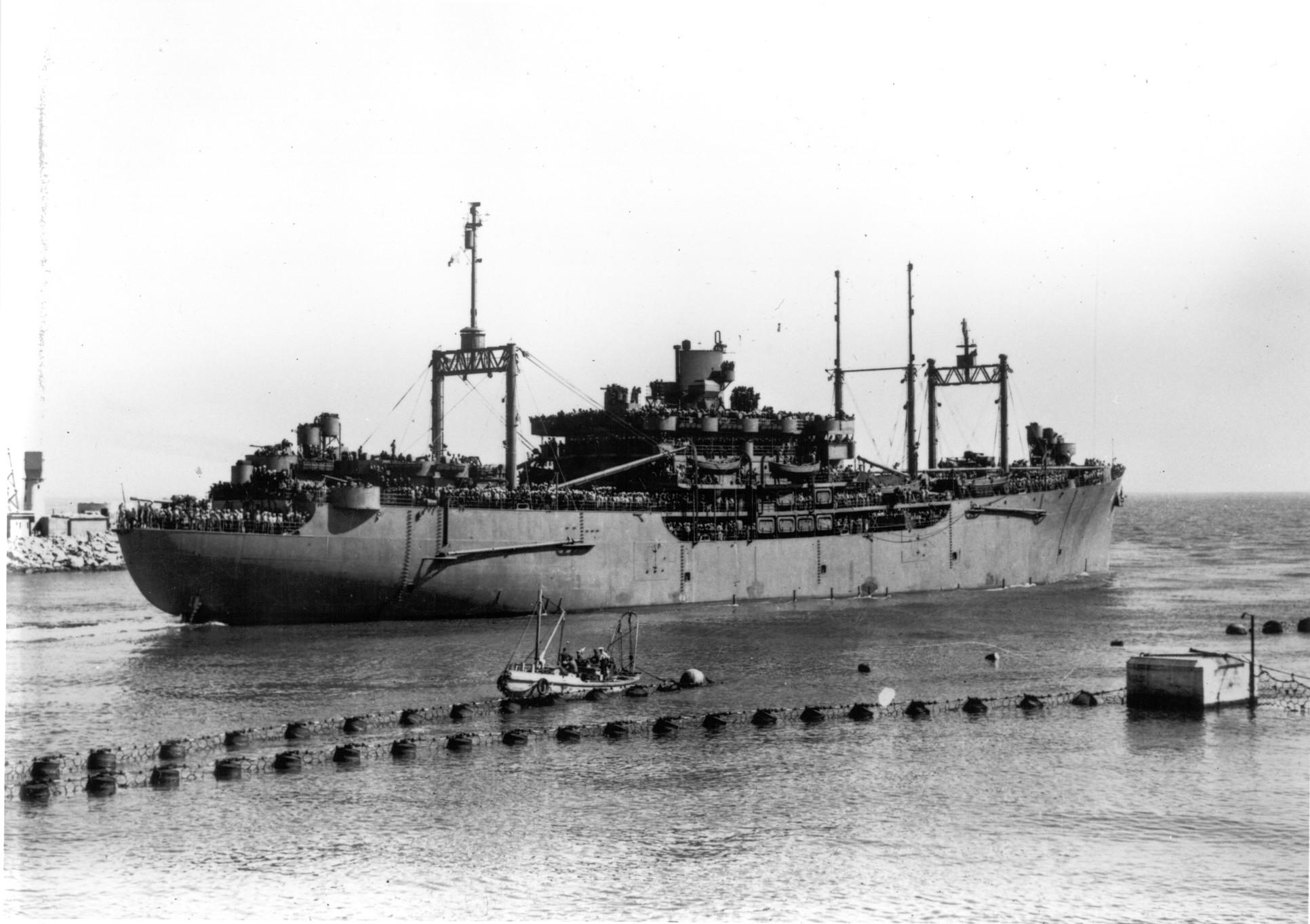 The U.S. Navy submarine tender USS Clytie (AS-26) passing through the submarine boom defense netting at Fremantle, Australia, in September 1945.